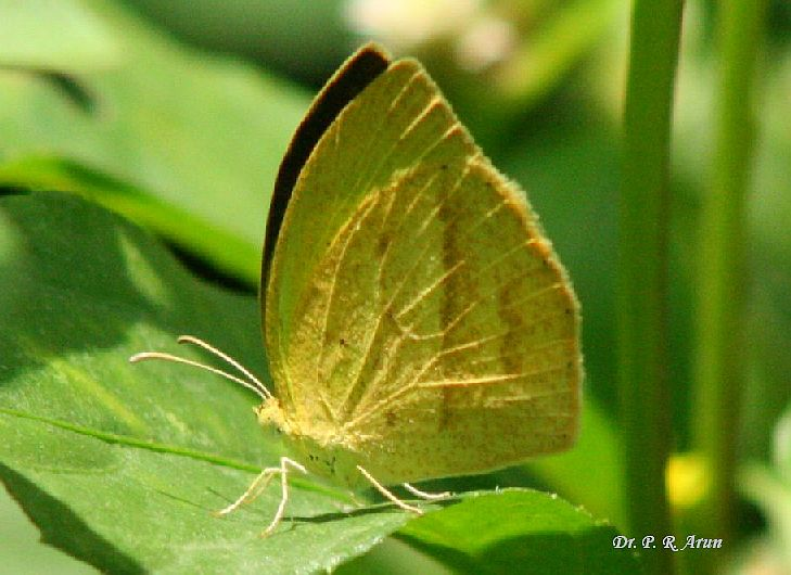 Spotless Grass Yellow Butterfly (Eurema laeta, )